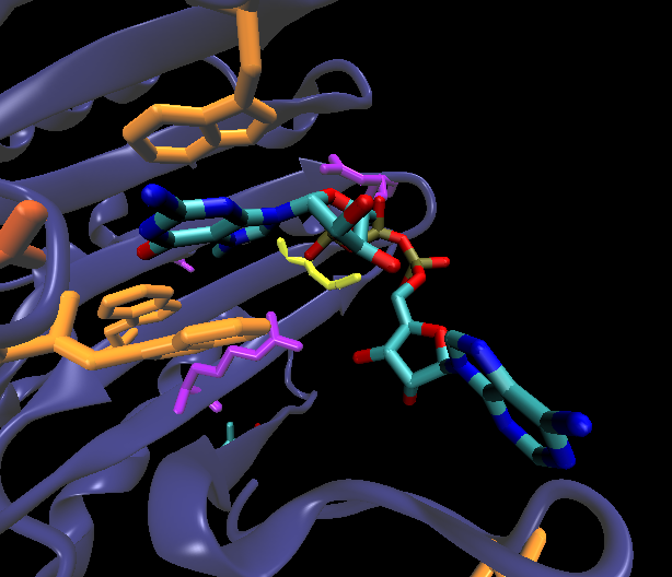 Depiction of interaction between cap analogue molecule and eIF4E protein